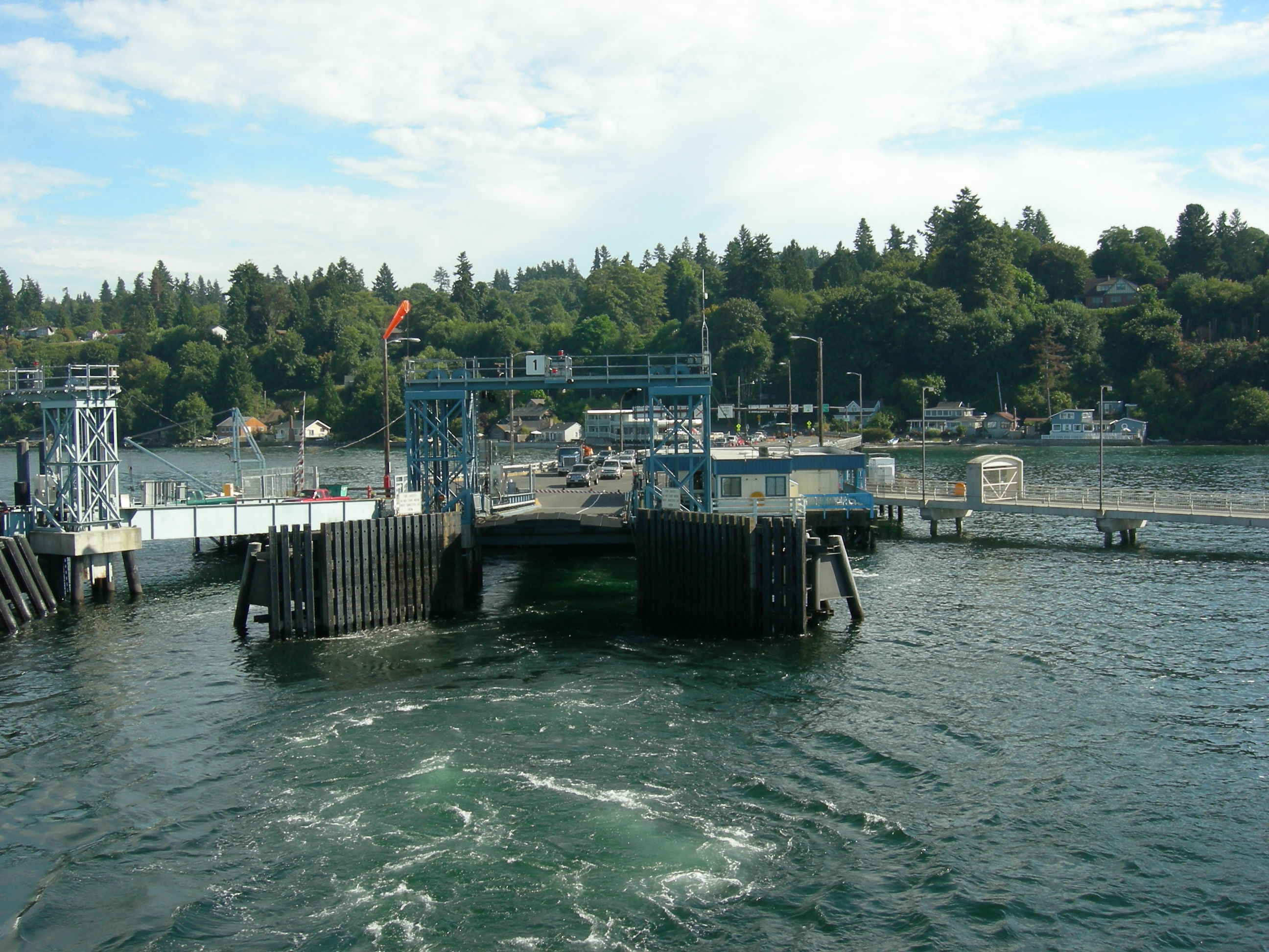 Washington State Ferry dock near north tip of Vashon Island, Washington